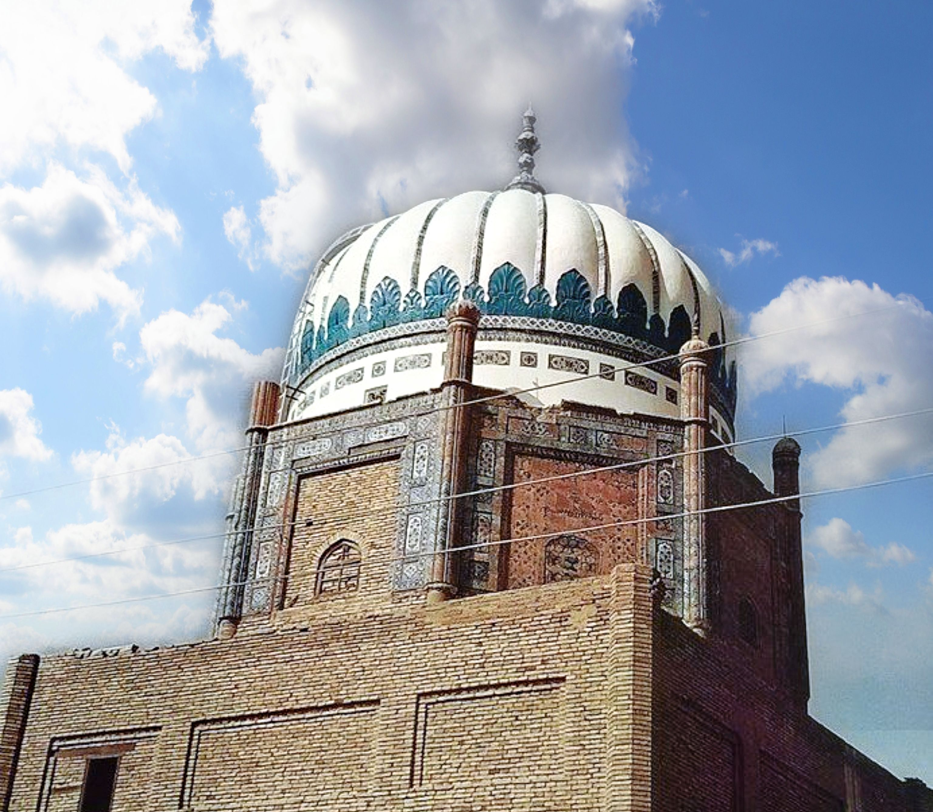 Dargah Pir Sarhandi a beautiful and architectural heritage of sub-continent